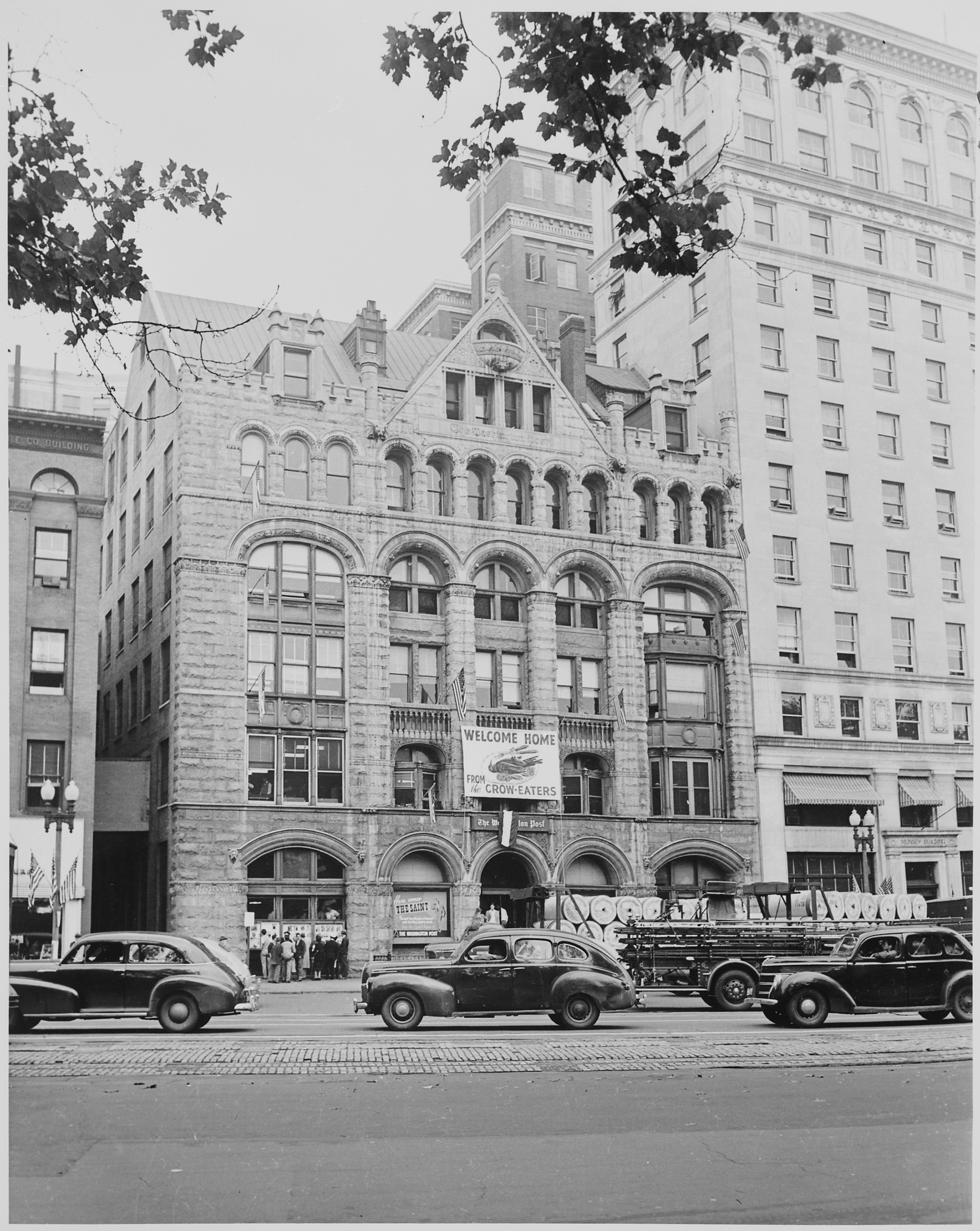 General notes: E Street NW between 13th and 14th streets, although the traffic is on the Pennsylvania Avenue segment now realigned for "Freedom Plaza." The building at right still houses the National Theatre, but the others have been replaced by the JWMarriott Hotel.